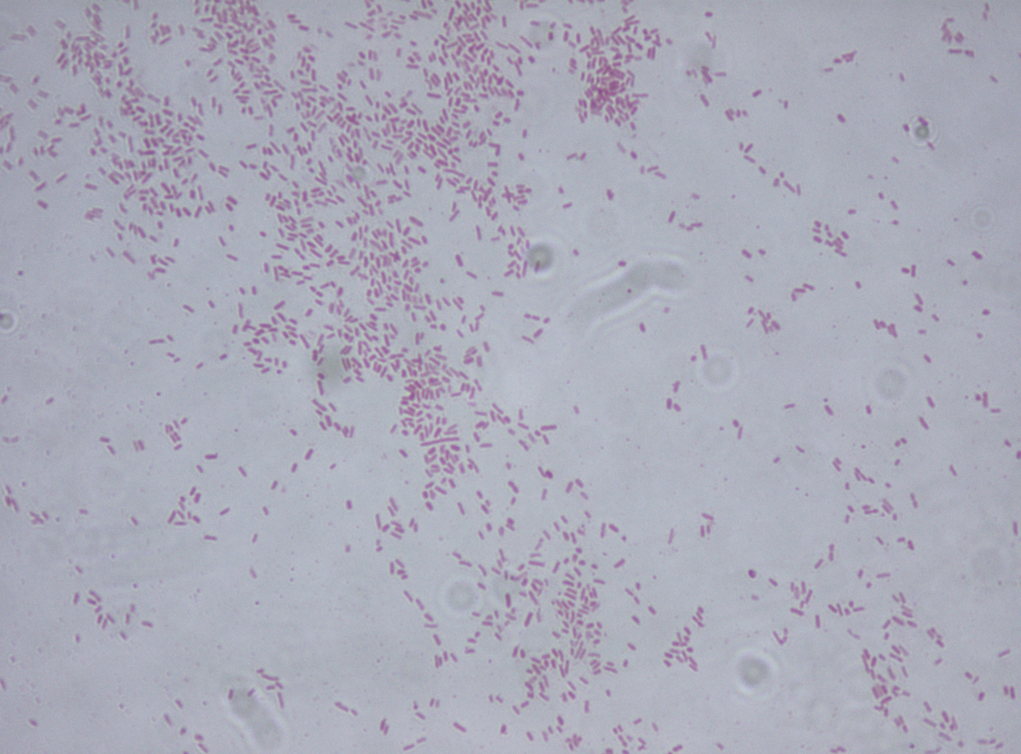 Gram stain